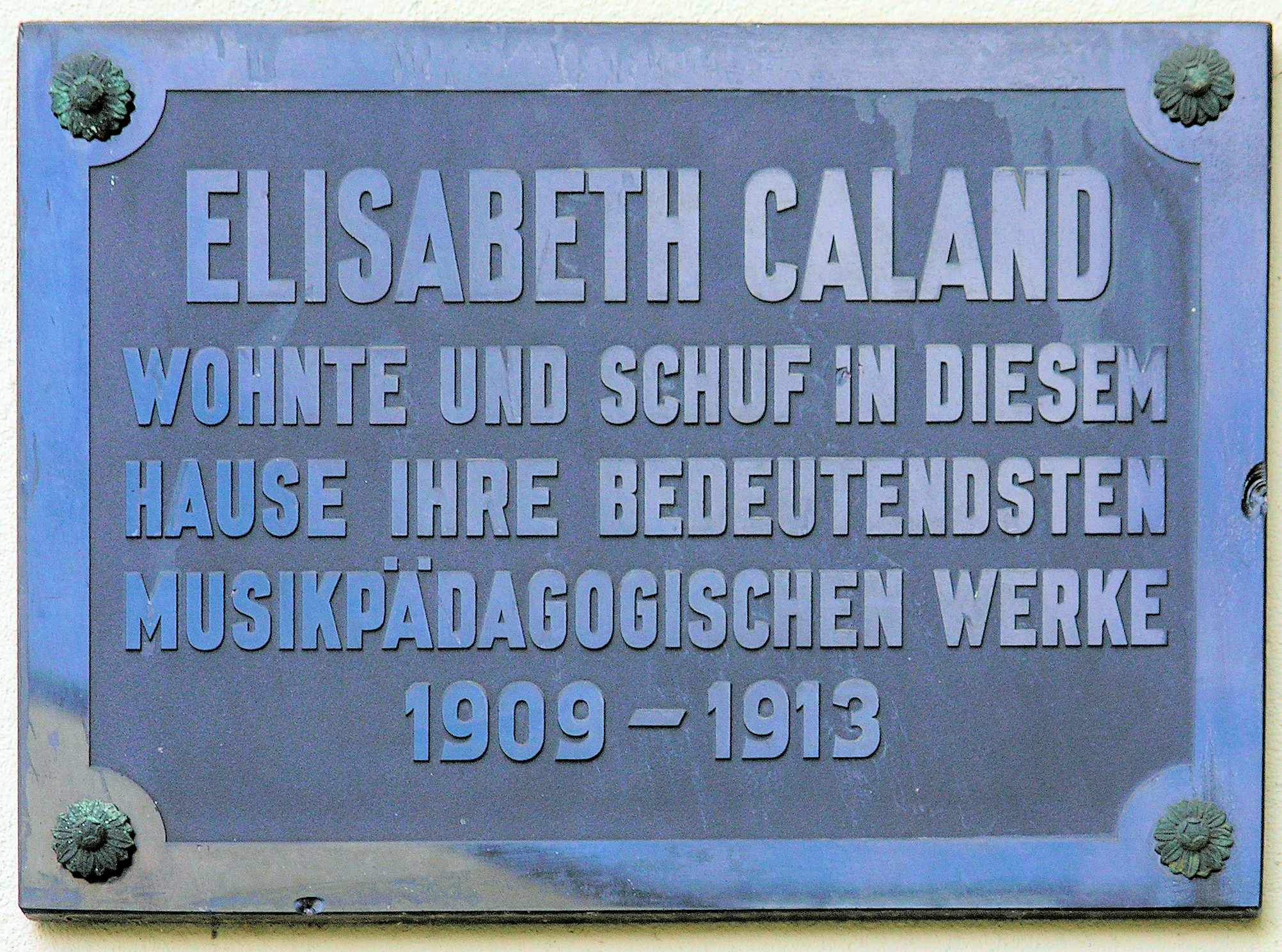 Memorial plaque, Elisabeth Caland, Nithackstraße 22, Berlin-Charlottenburg, Germany Koordinate:52°31′8.1″N 13°17′53.6″E / 52.518917°N 13.298222°E